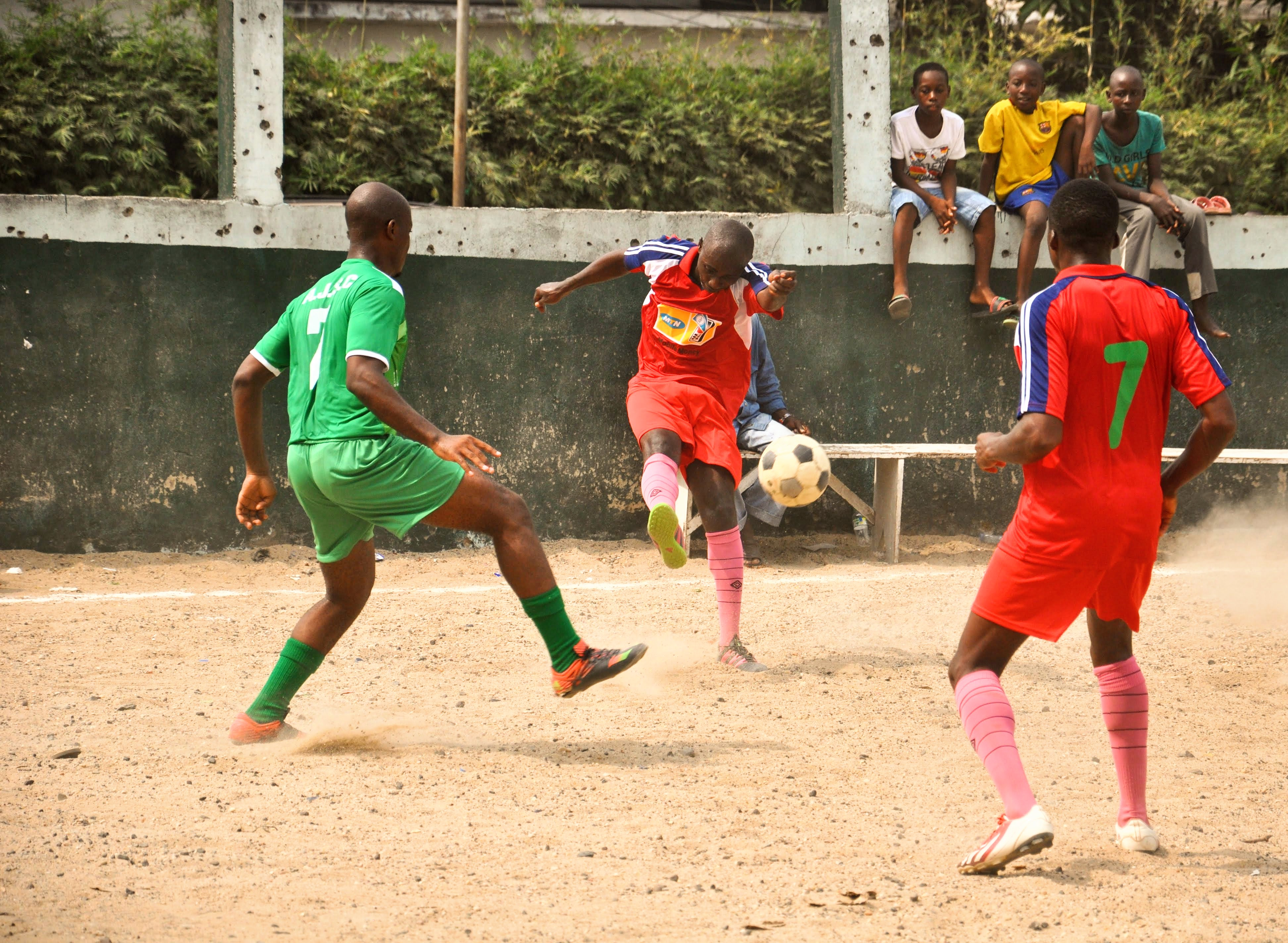 This is an image with the theme "Play" from: Cameroon